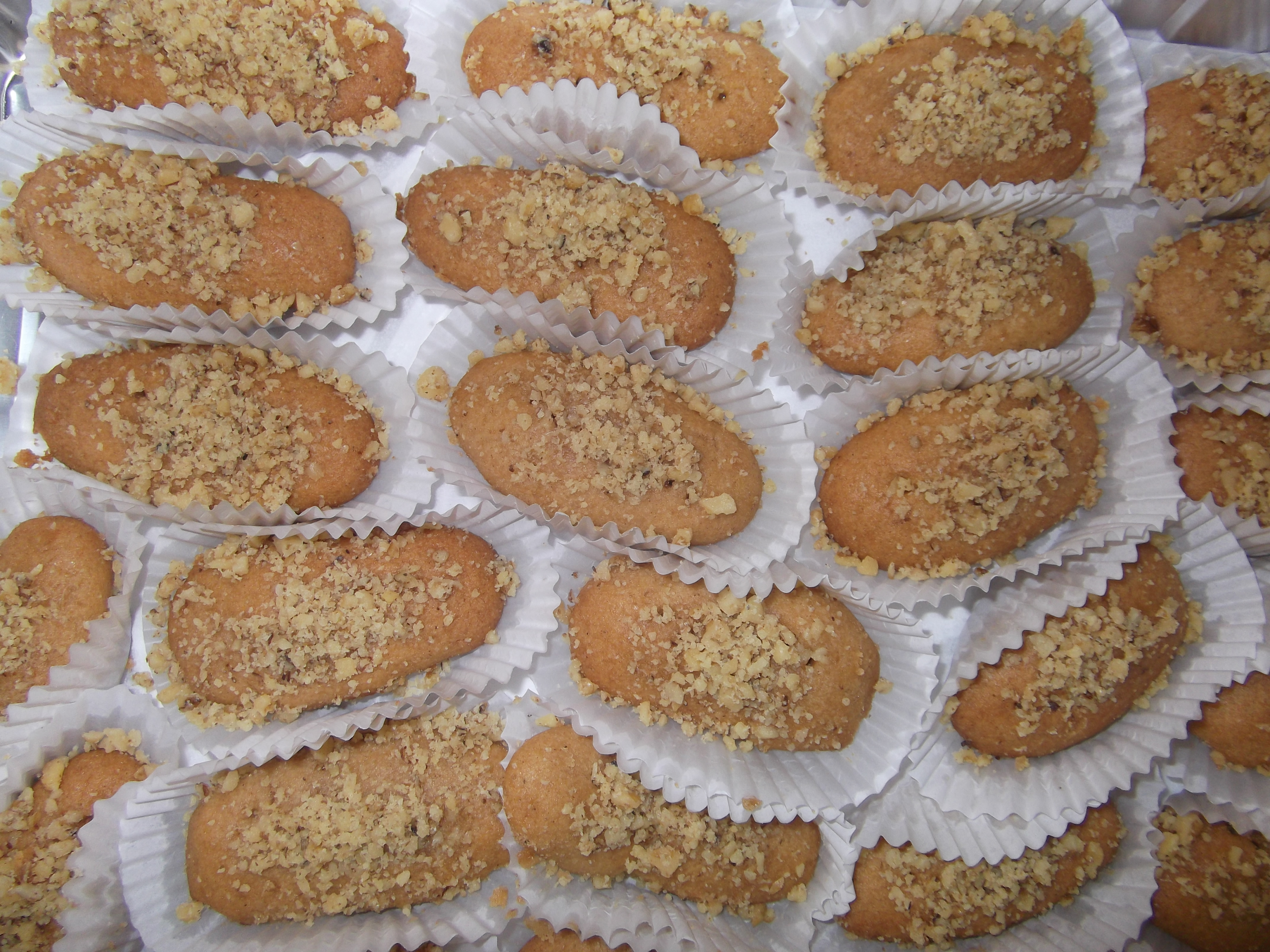 Finikia at the 2011 Greek Festival at the Greek Orthodox Church of St. George in Piscataway